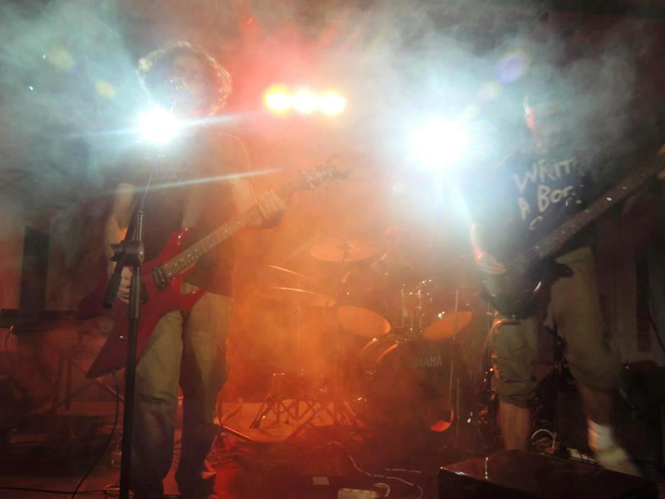 Photo taken from concert